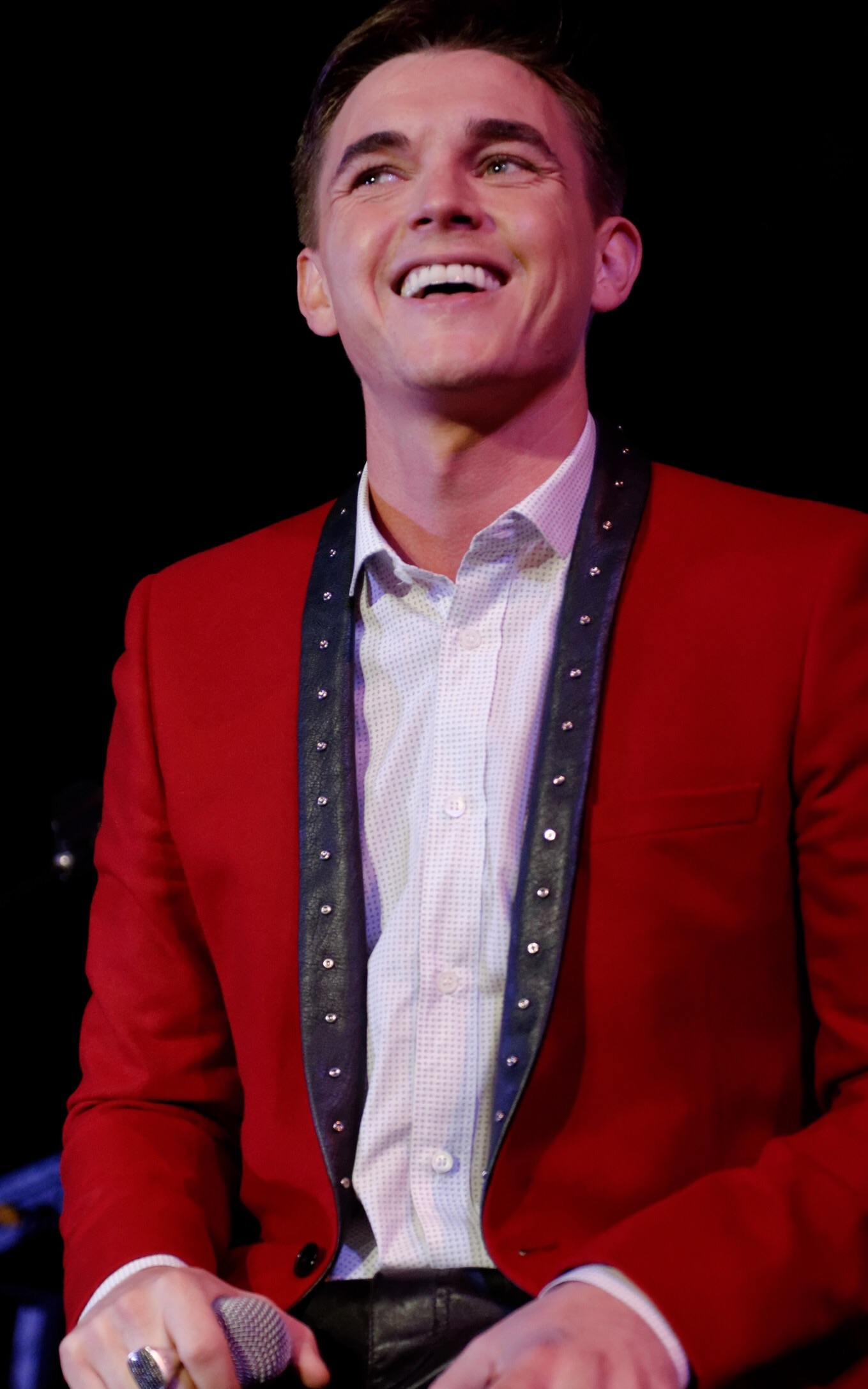 McCartney performing live at The Citadel Outlets' 12th Annual Tree Lighting Concert in Commerce CA on November 9th, 2013.